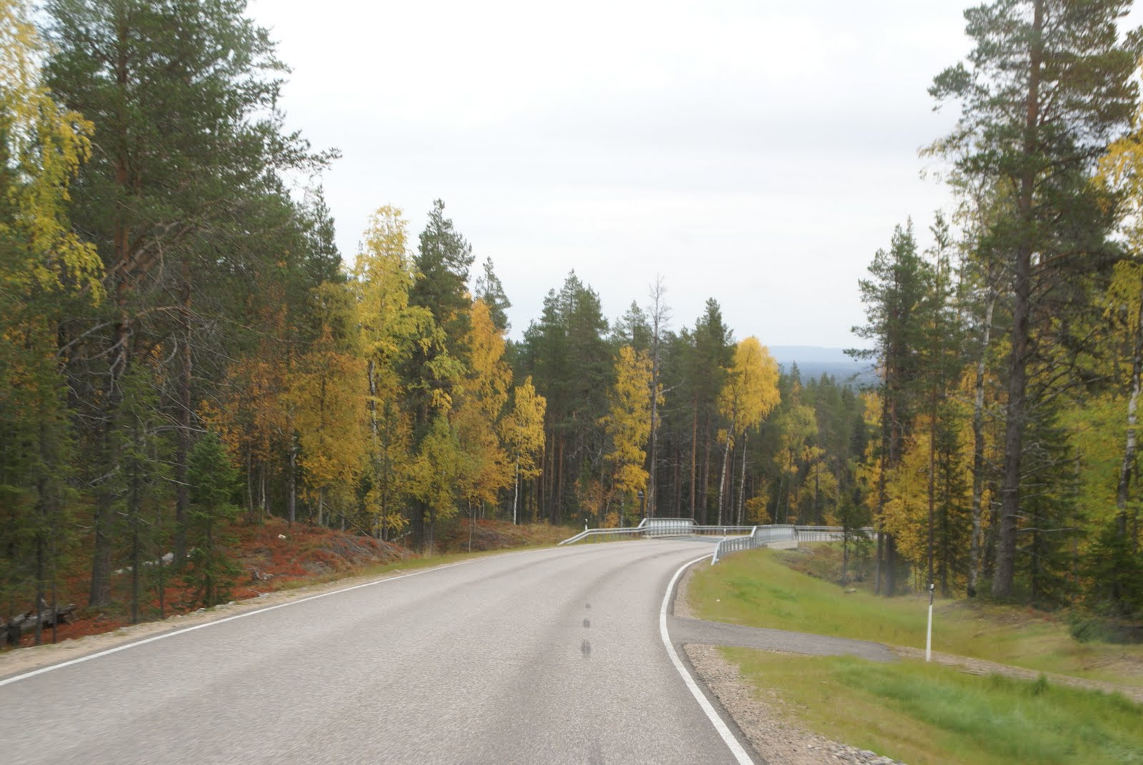 Connecting road 9401 in Kolari, Finland